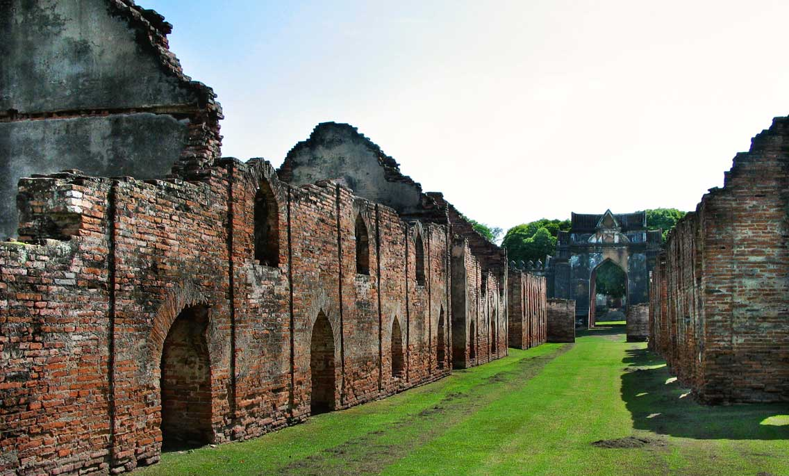 Warehouses in Phra Narai Ratcha Nivet, palace of King Narai, Lopburi, Thailand